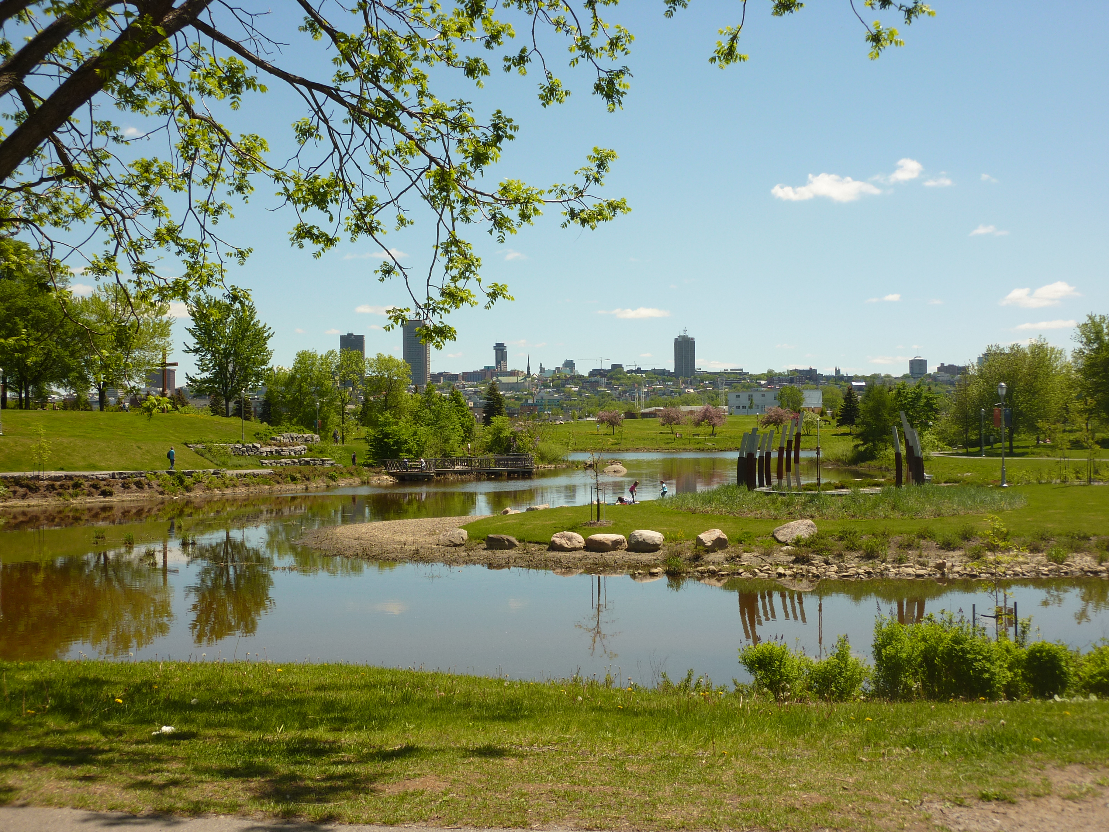 St. Charles river in Cartier-Brebeuf national historical site, in Québec City (Quebec, Canada), June 2011